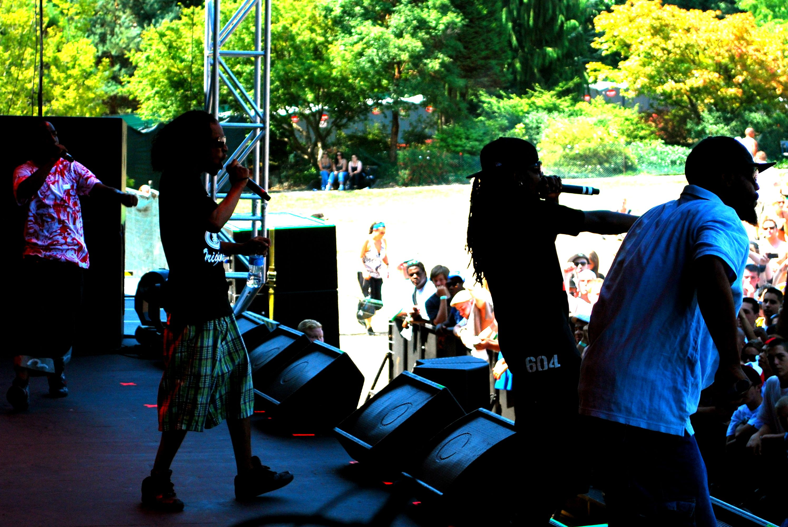 The Killawatt Crew at Rock The Bells hip-hop festival in Vancouver, 2009.